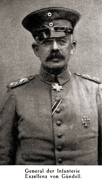 prussain general Erich von Guendell